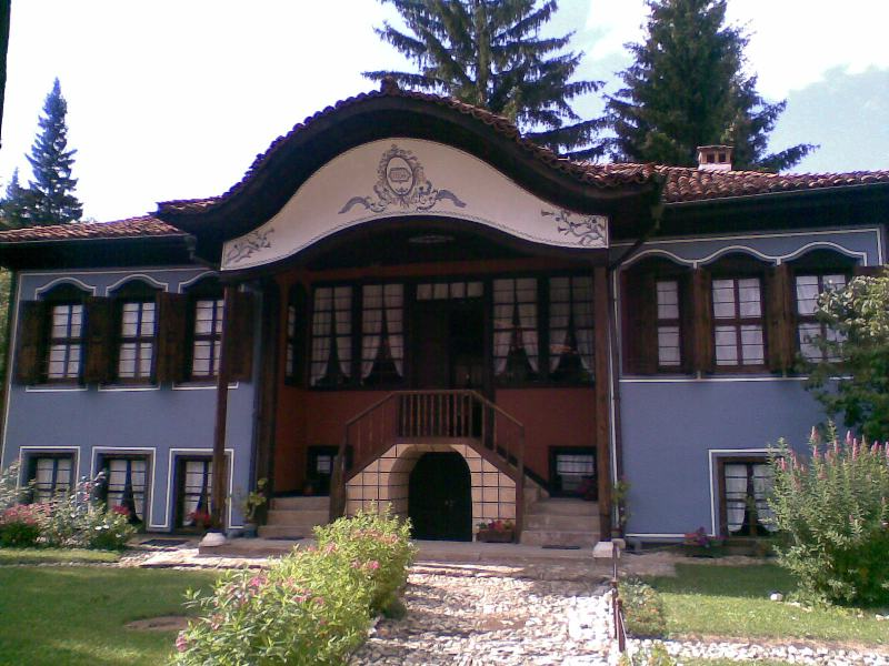 Lyutov House in Koprivshtitsa, Bulgaria